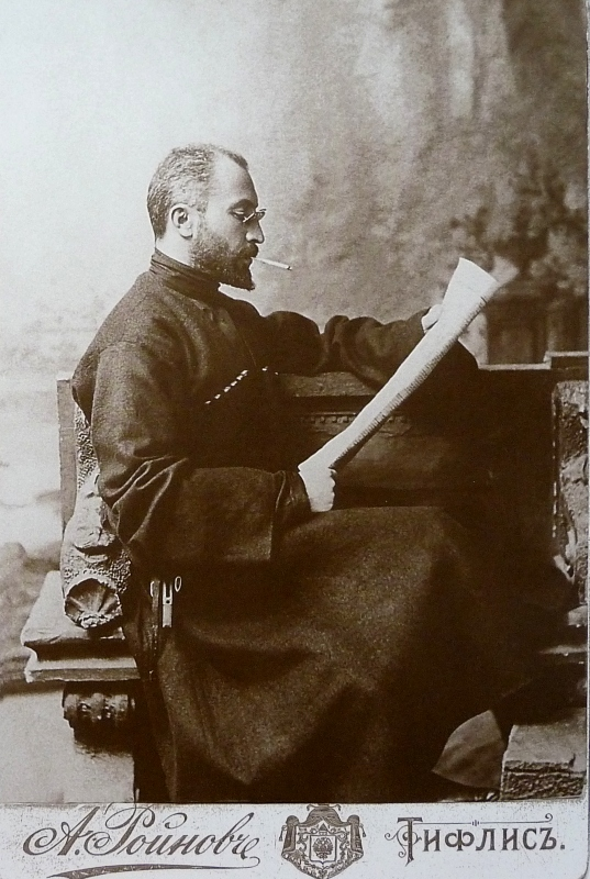 Georgian playwright and actor Valerian Gunia